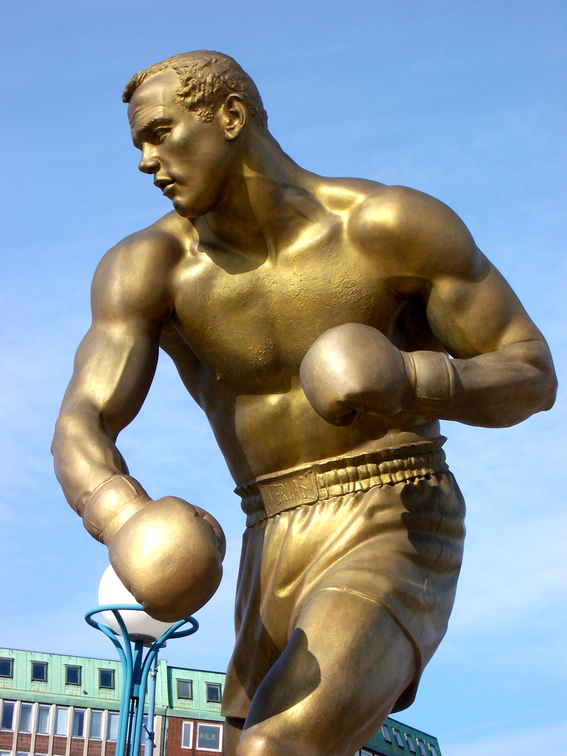 Peter Linde´s statue in bronze of world heavyweight champion in boxing Ingemar Johansson was unveiled in Johanssons home town on Saturday, September 17th, 2011, outside Ullevi - the stadium where Johansson won a match in 1958 against Eddie Machen.